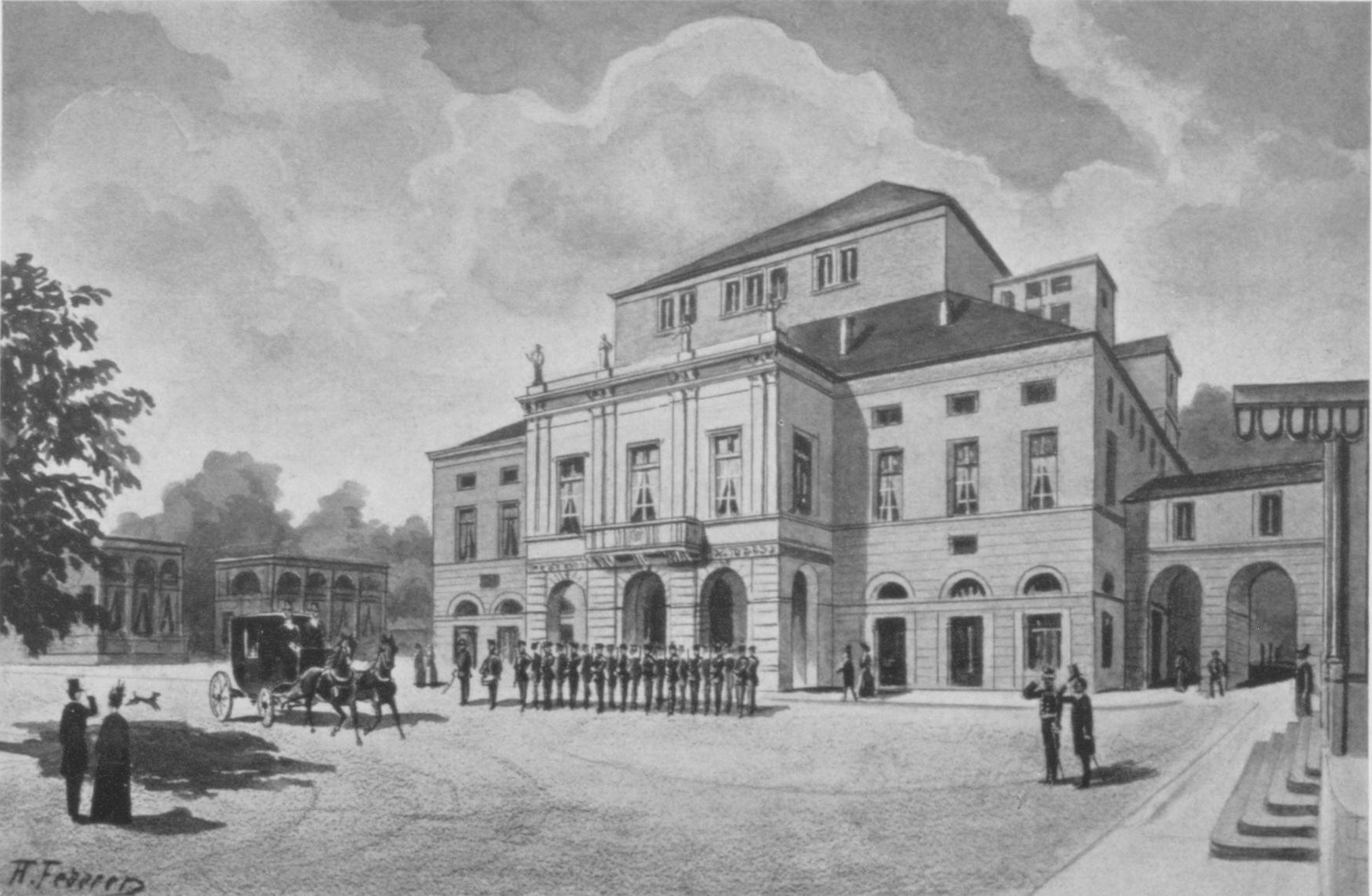 Stuttgart, Hoftheater, 1890